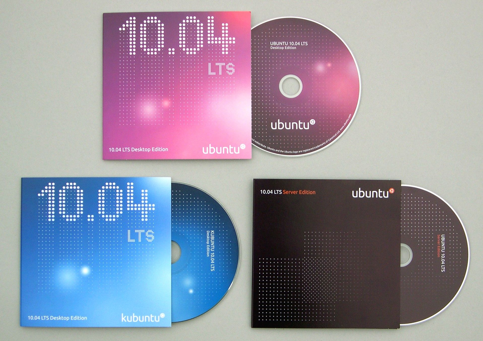 Ubuntu, Kubuntu and Ubuntu Server Edition CDs, version 10.04 "Lucid Lynx" as they can be ordered for free via Ubuntu Shipit.